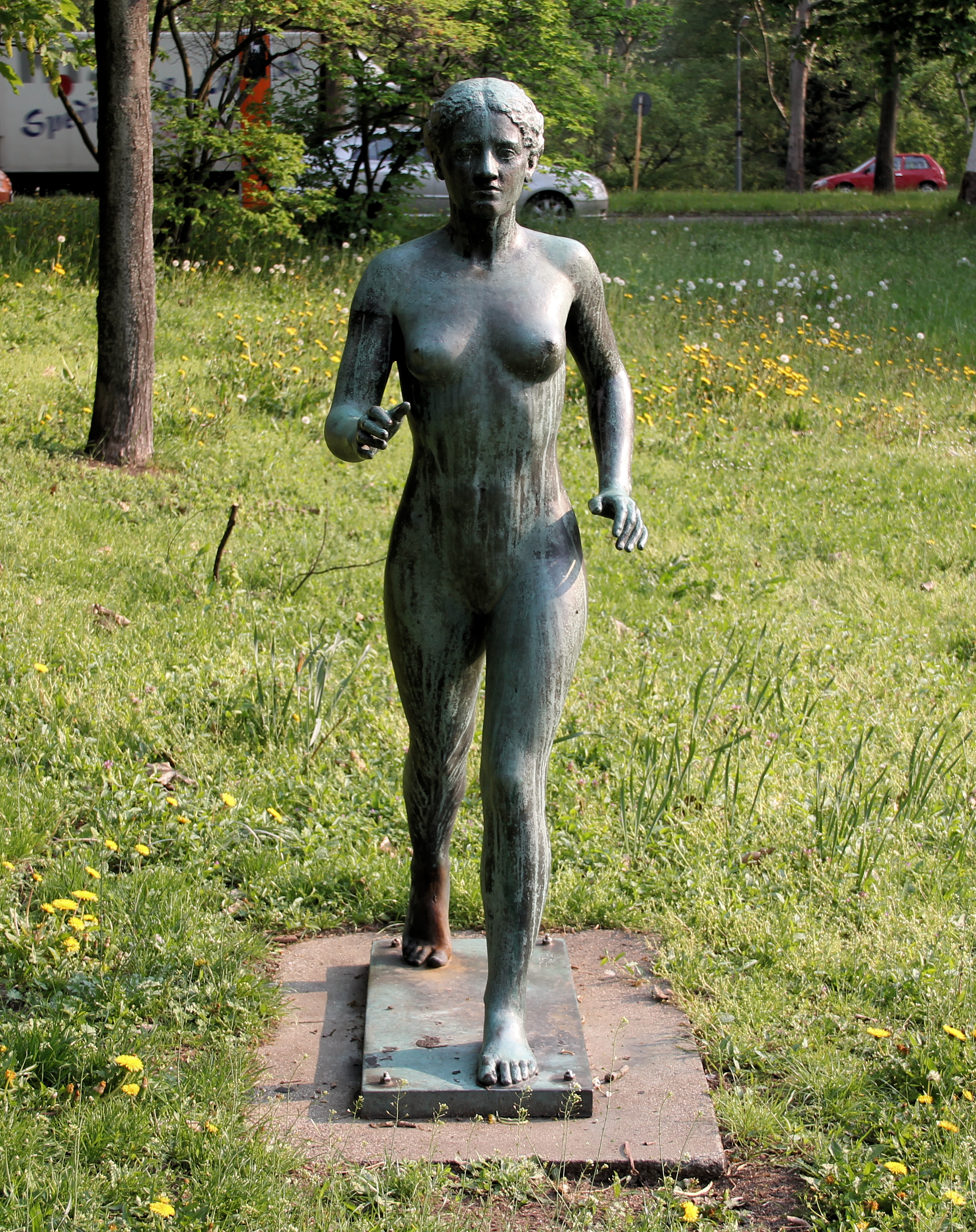 Memorial statue, "schreitendes Mädchen" by Fritz Röll, 1932, Heerstraße 233, Berlin-Wilhelmstadt, Germany